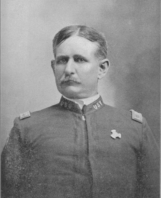 BG Clement R. Schaer, Arkansas State Guard, Served in the Arkansas State Guard from the time of the Brooks Baxter War. Appointed Brigadier General and assigned to command the Southern District of Arkansas, accepted a commission as a Major, 1st Arkansas Volunteer Infantry